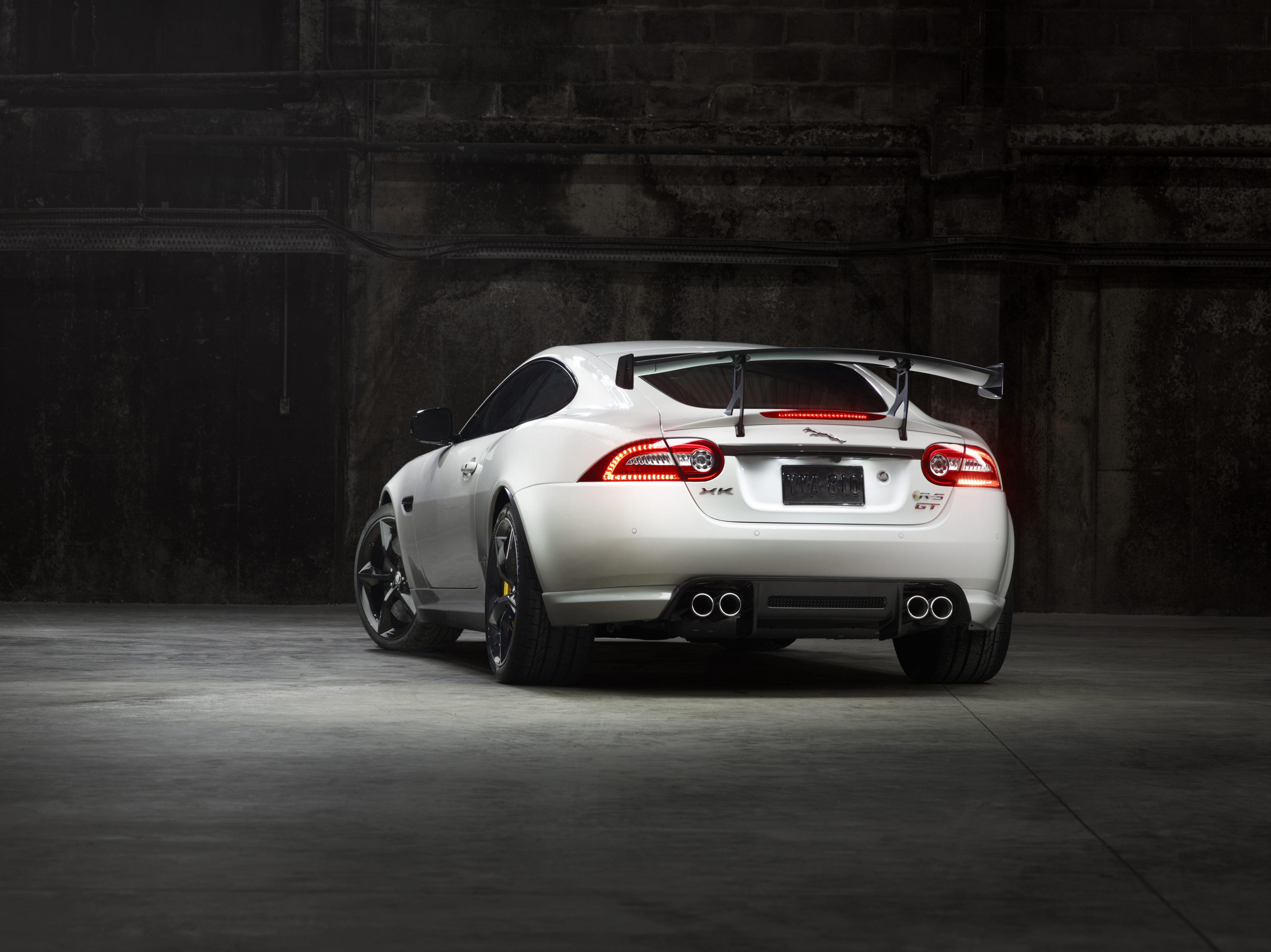 The XKR-S GT is the most extreme iteration of the Jaguar R Brand's performance focus. Utilising race-car derived technology, all-aluminium construction and an uncompromised approach to aerodynamic efficiency, the result is a car as capable on the track as it is exhilarating on the road.